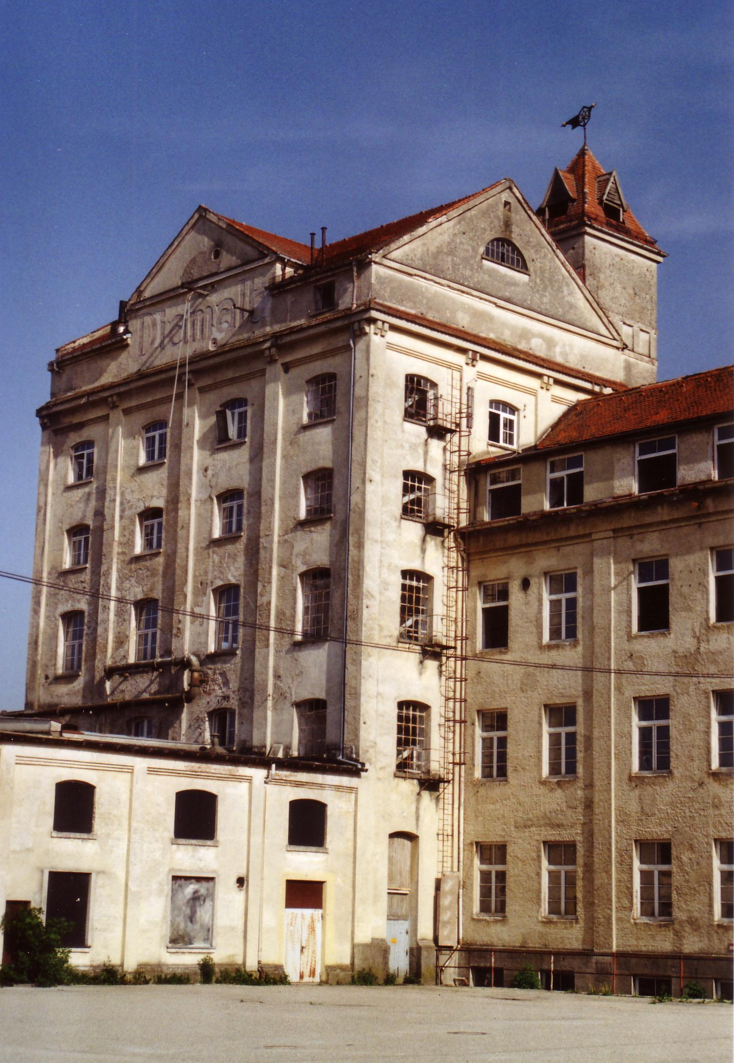 Diamalt Building in Munich